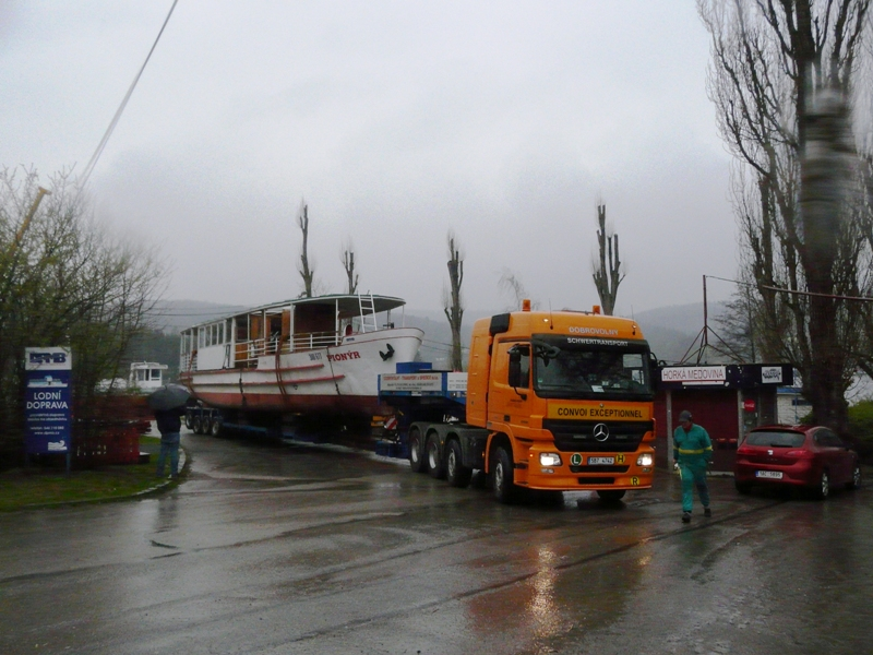 Transport of ship Pionýr from Brno reservoir, Czech Republic